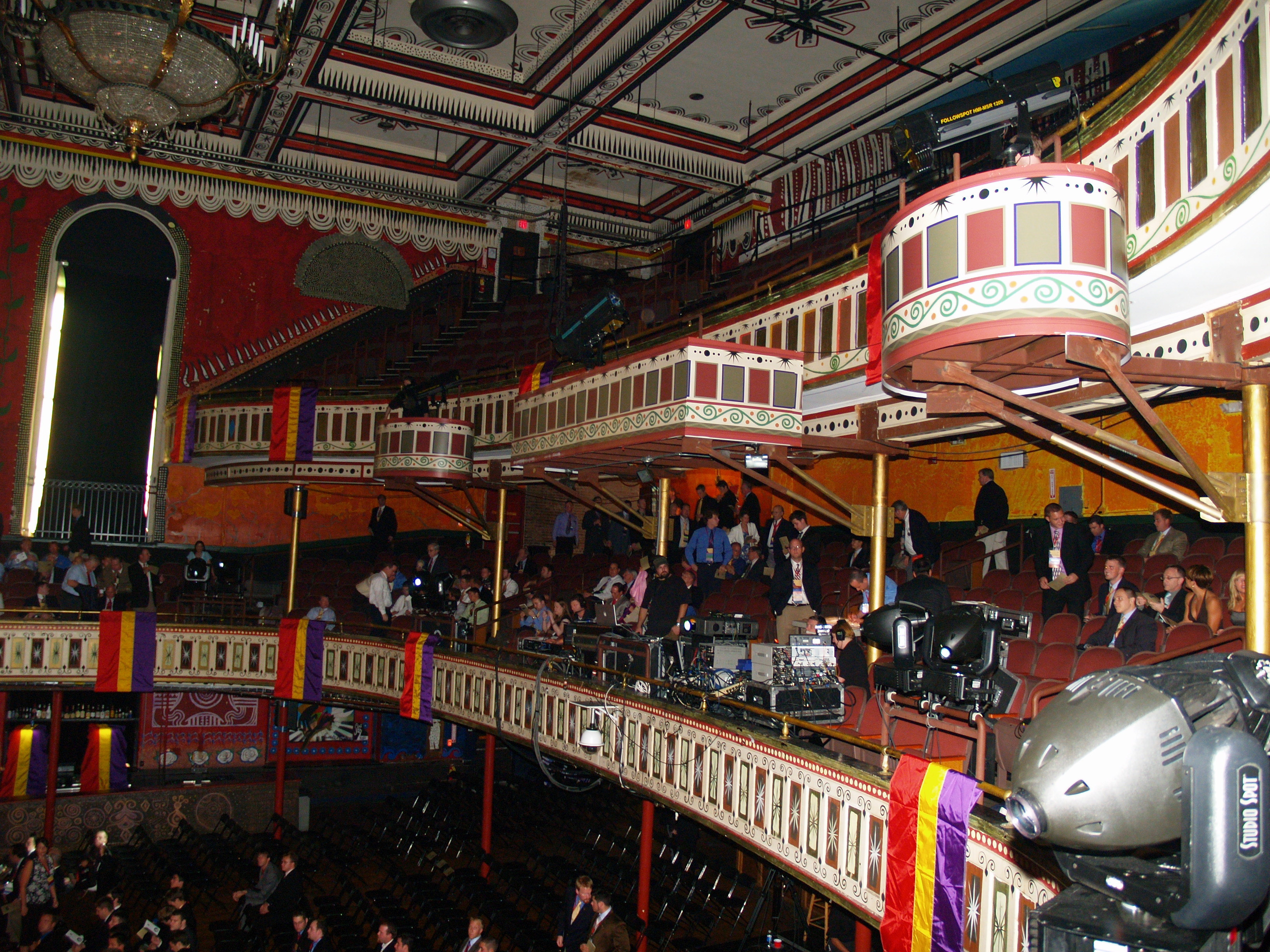 Inside of the Tabby